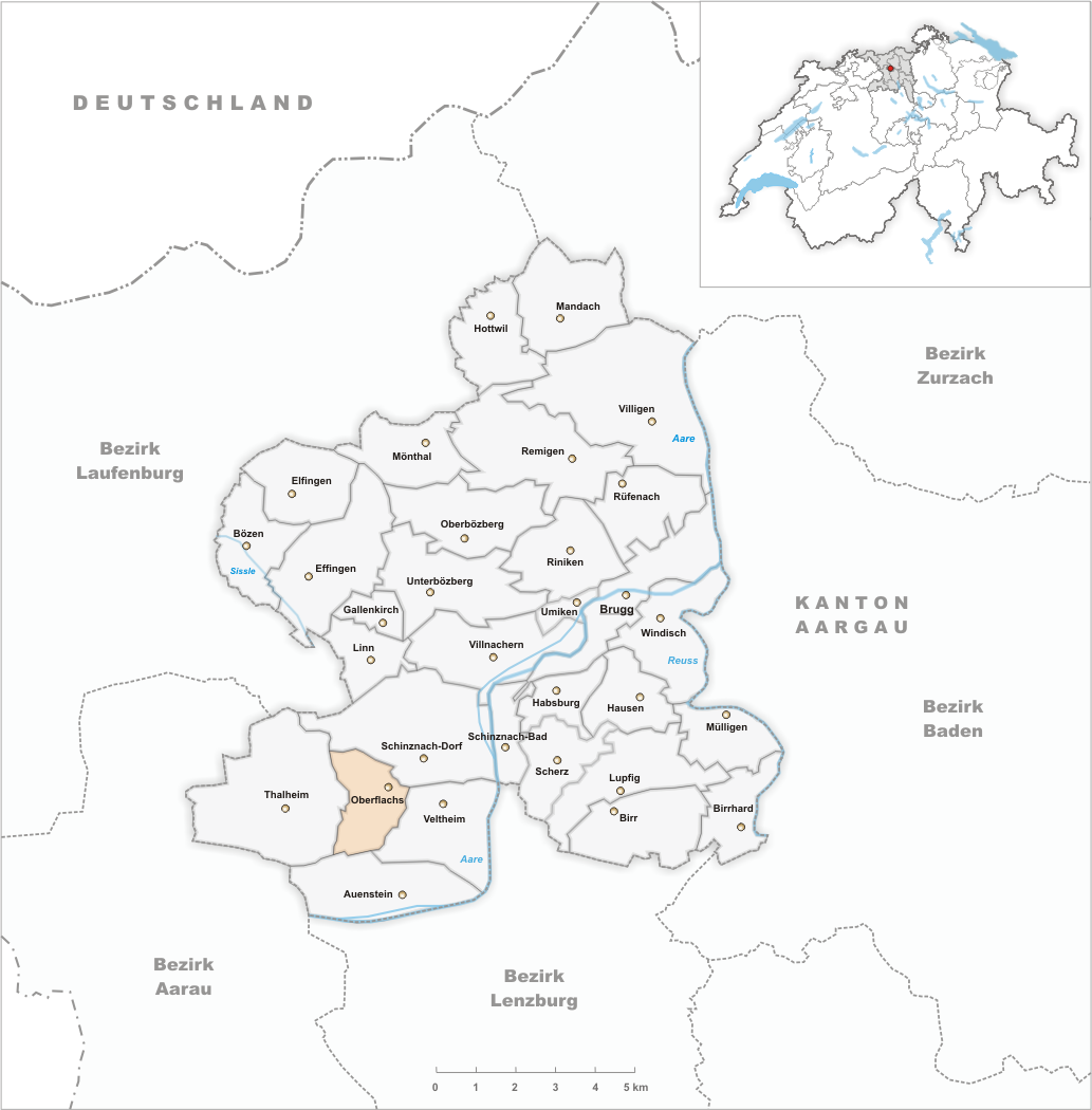 Municipality Oberflachs